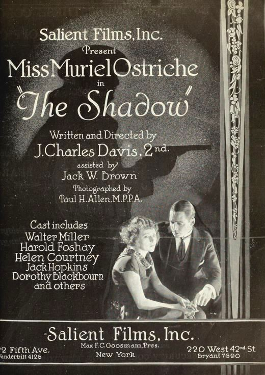 Advertisement for the American drama film The Shadow (1921) with Muriel Ostriche and Walter Miller, on inside back cover of the February 27, 1921 Film Daily.